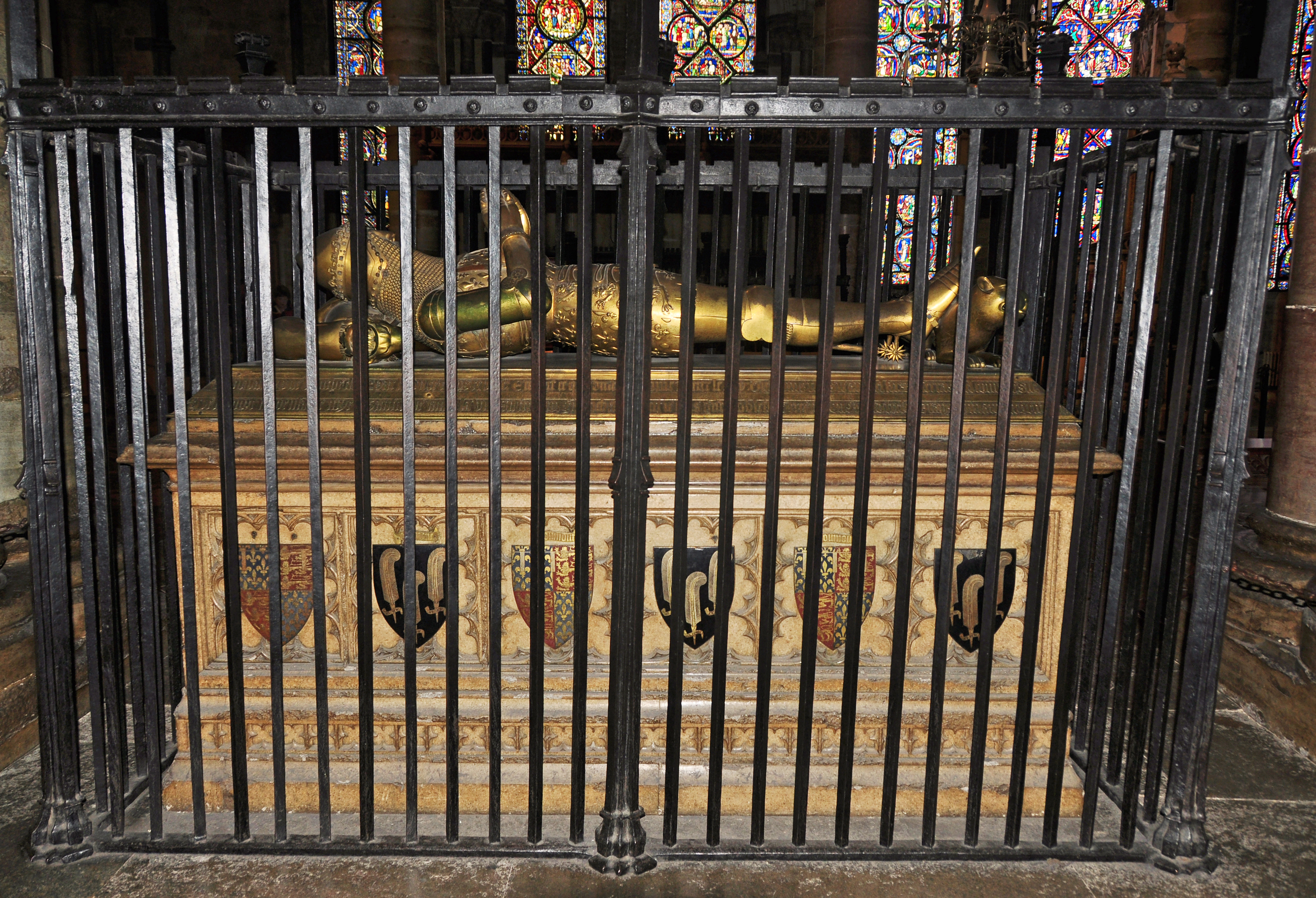 The tomb of the Black Prince in Canterbury Cathedral.